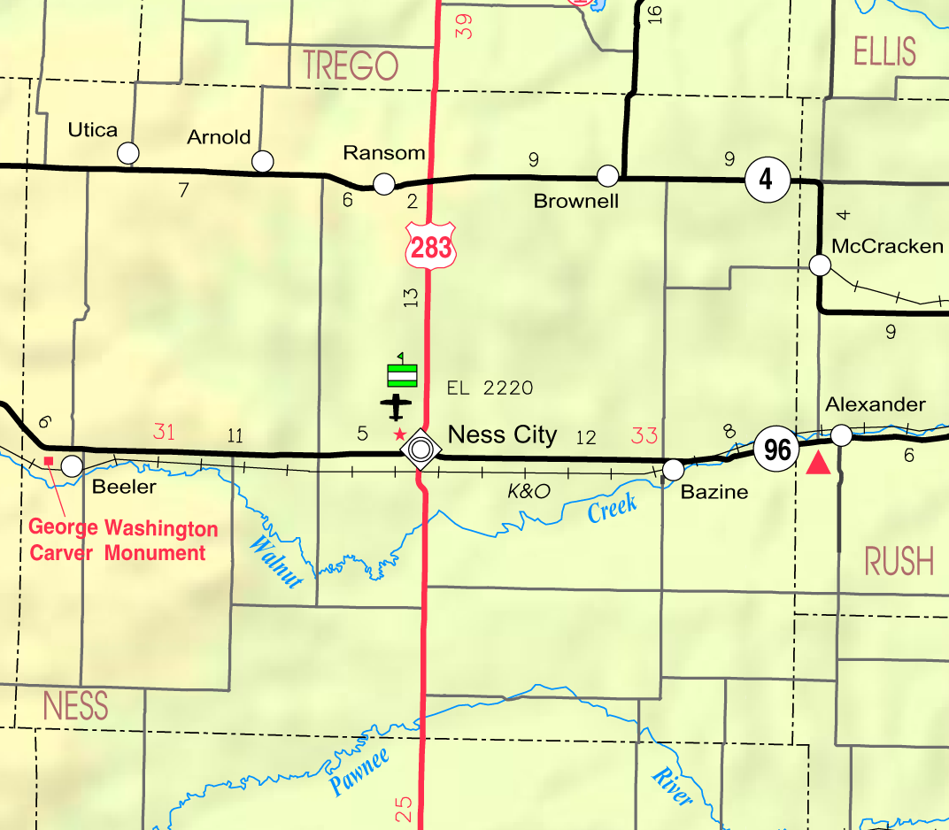 This map of Ness County, Kansas, USA, is copied at a resolution of 300 pixels/inch from the original PDF file.